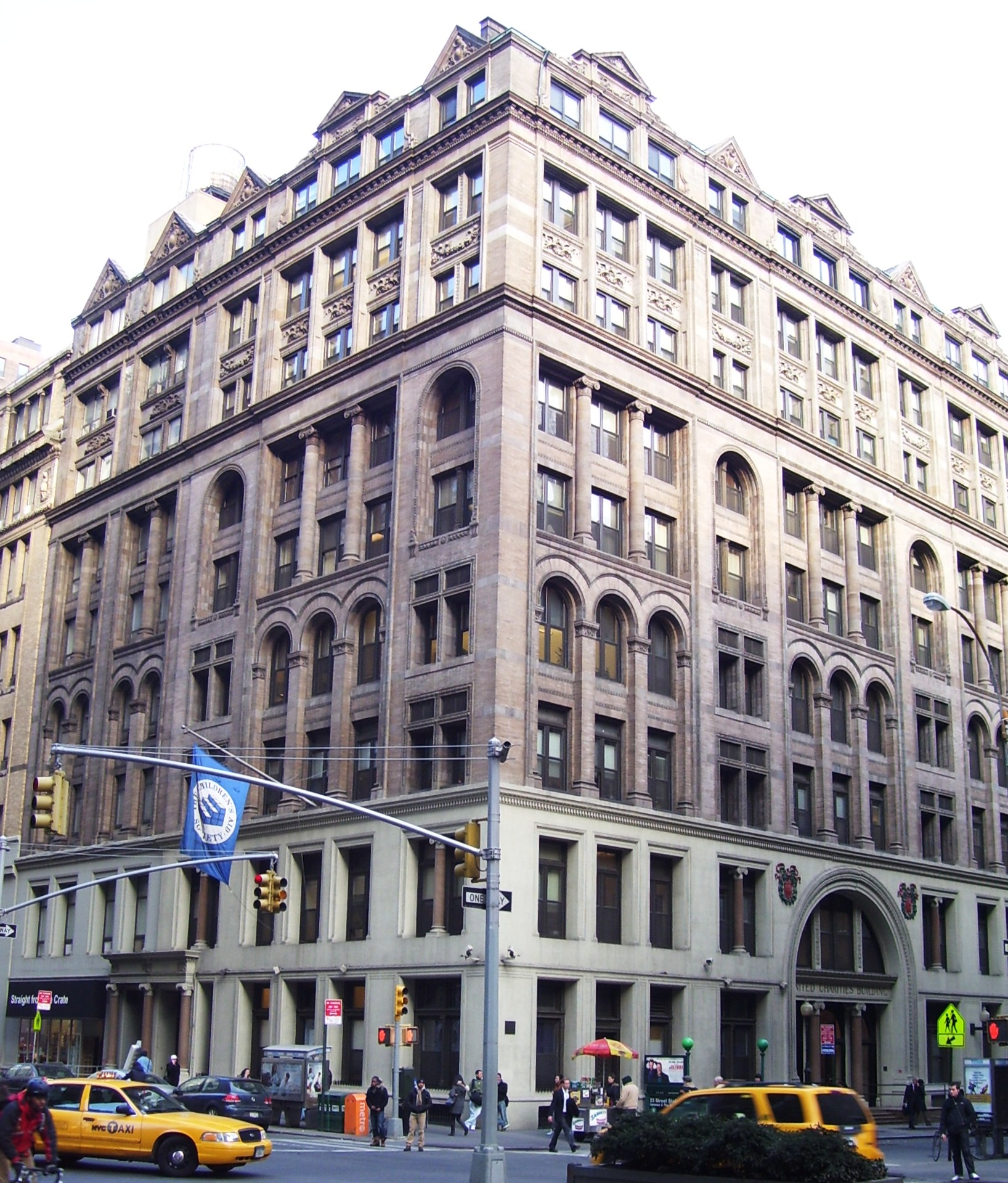 The United Charities Building at 287 Park Avenue South in Manhattan, New York City